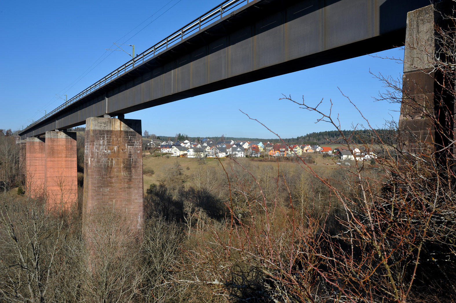 Stockerbach viaduct of the Gäubahn between Dornstetten and Freudenstadt; Baden-Württemberg, Germany.